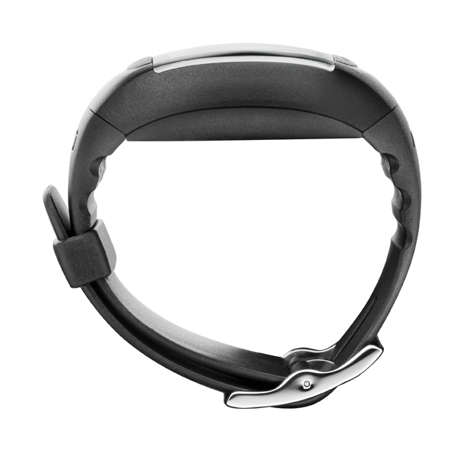 FRWD W-series Wrist Display